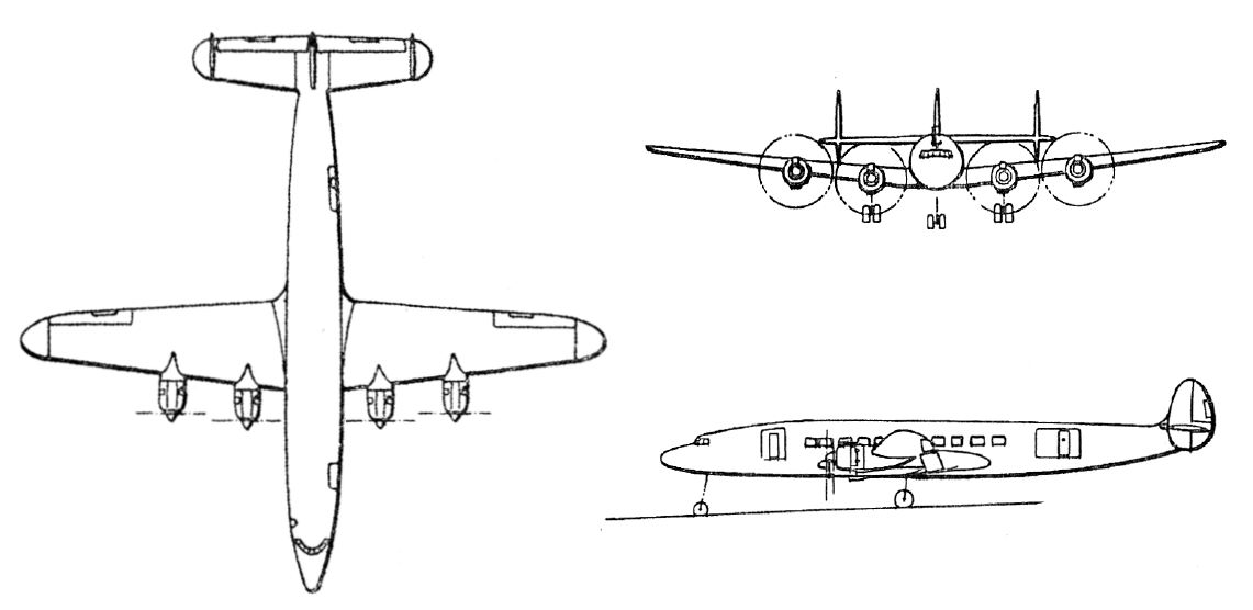 Line drawings for the Lockheed C-121 Super Constellation (Lockheed Model L-1049, U.S. Navy designation R7V-1).